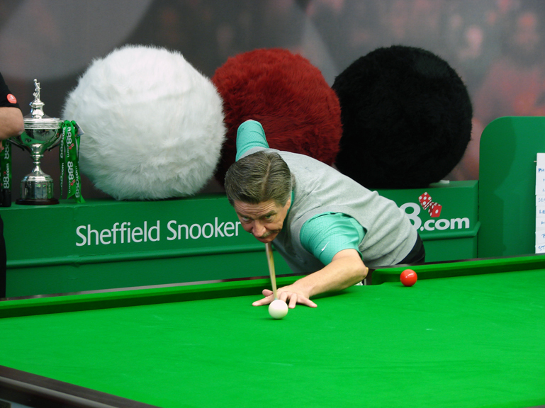 Ben Woodward Taken at the World Snooker Championship 2007 Shot with a Sont H5 digital camera